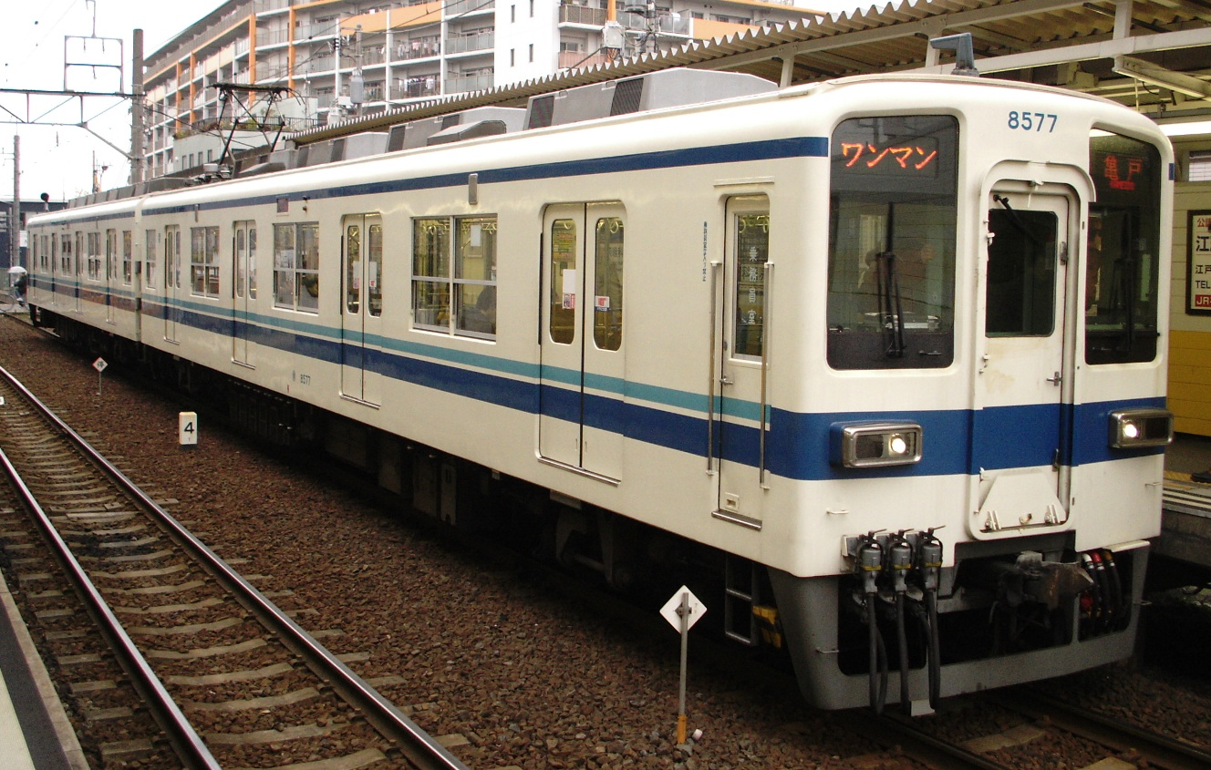 Tobu 8000 series two-car EMU set 8577 on the Tobu Kameido Line